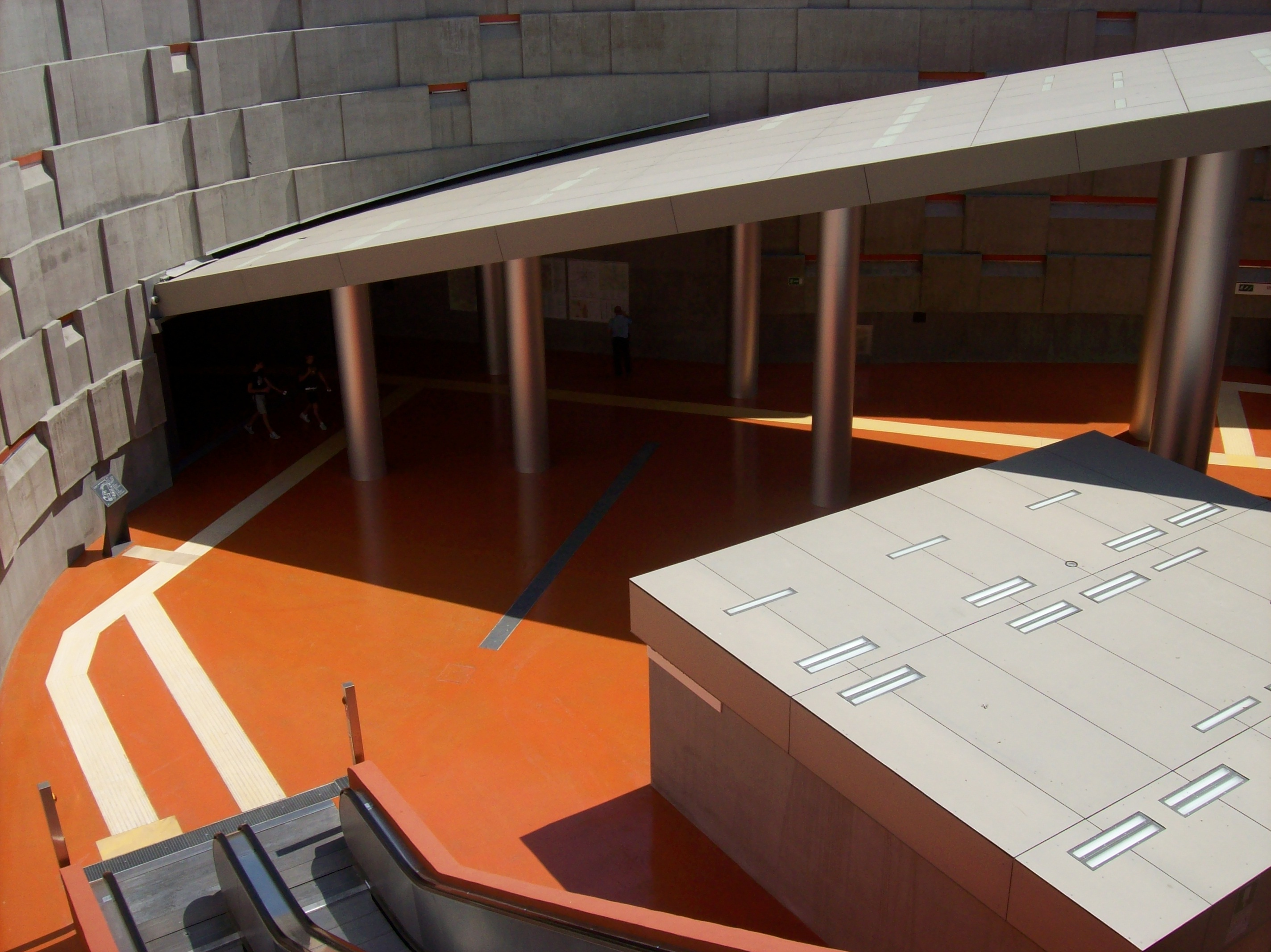 Rome Metro B1 station Sant'Agnese/Annibaliano - The main entrance under the level of the street